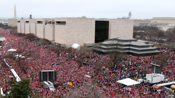 View of the Women's March on Washington from the roof of the Voice of America building in Washington, D.C. January 21, 2017 (B. Allen / VOA)